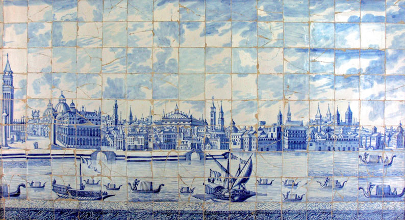 Tile panel attributed to Cornelis Boumeester. View of Venice. Palácio Saldanhas, Lisbon